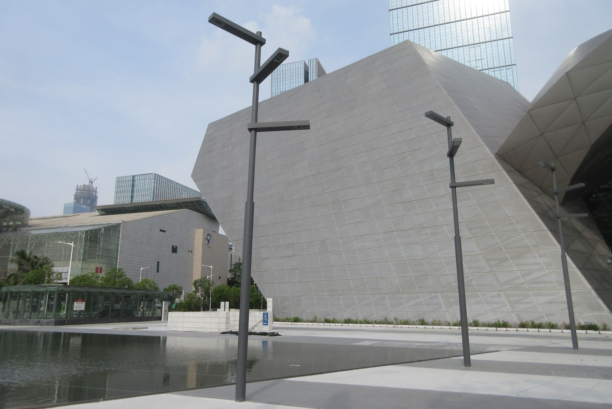 SZ 深圳 Shenzhen 福田 Futian 福中一路 Fuzhong 1st Road 深圳市少年宮 Children's Palace view MOCAPE facade Sept 2017